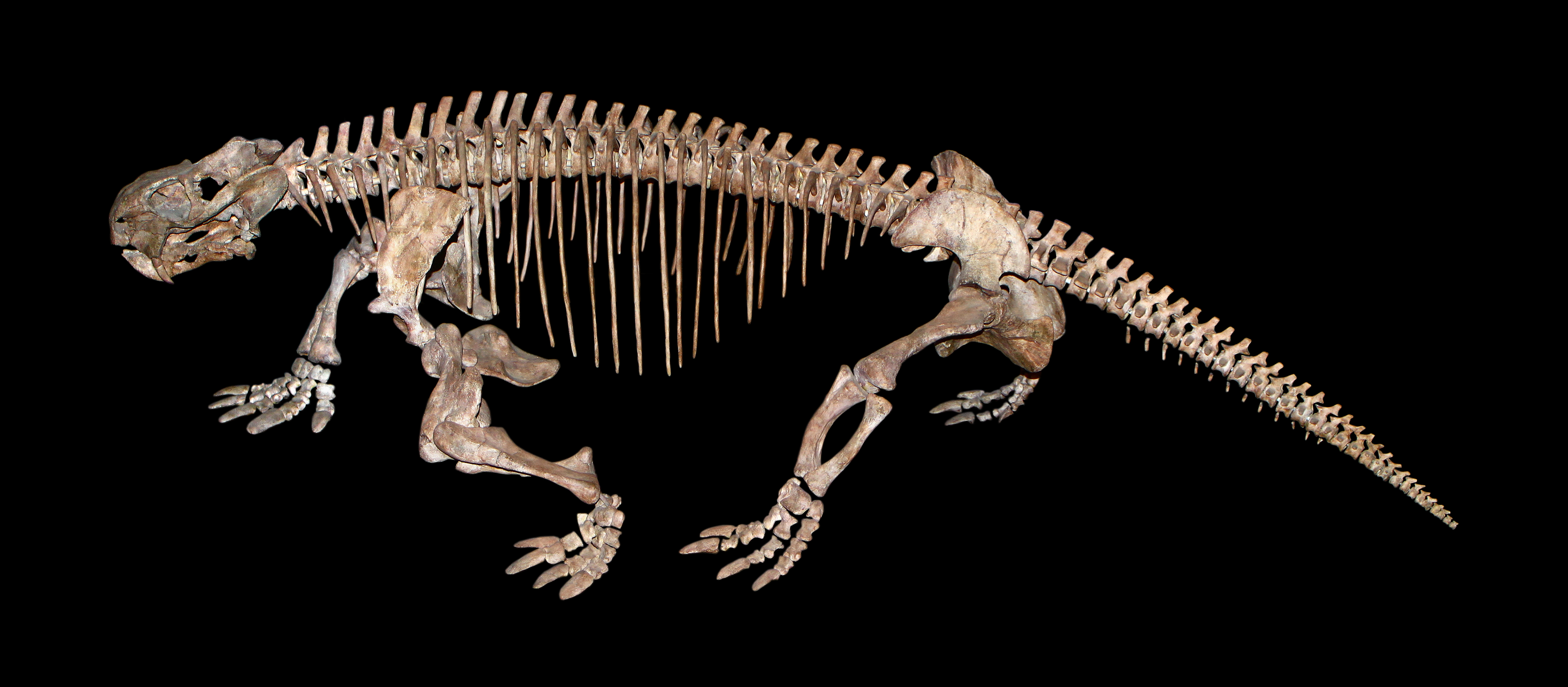 Tetragonias njalilus, Dicynodontidae, Replica; Middle Triassic, Tanzania; Staatliches Museum für Naturkunde Karlsruhe, Germany.